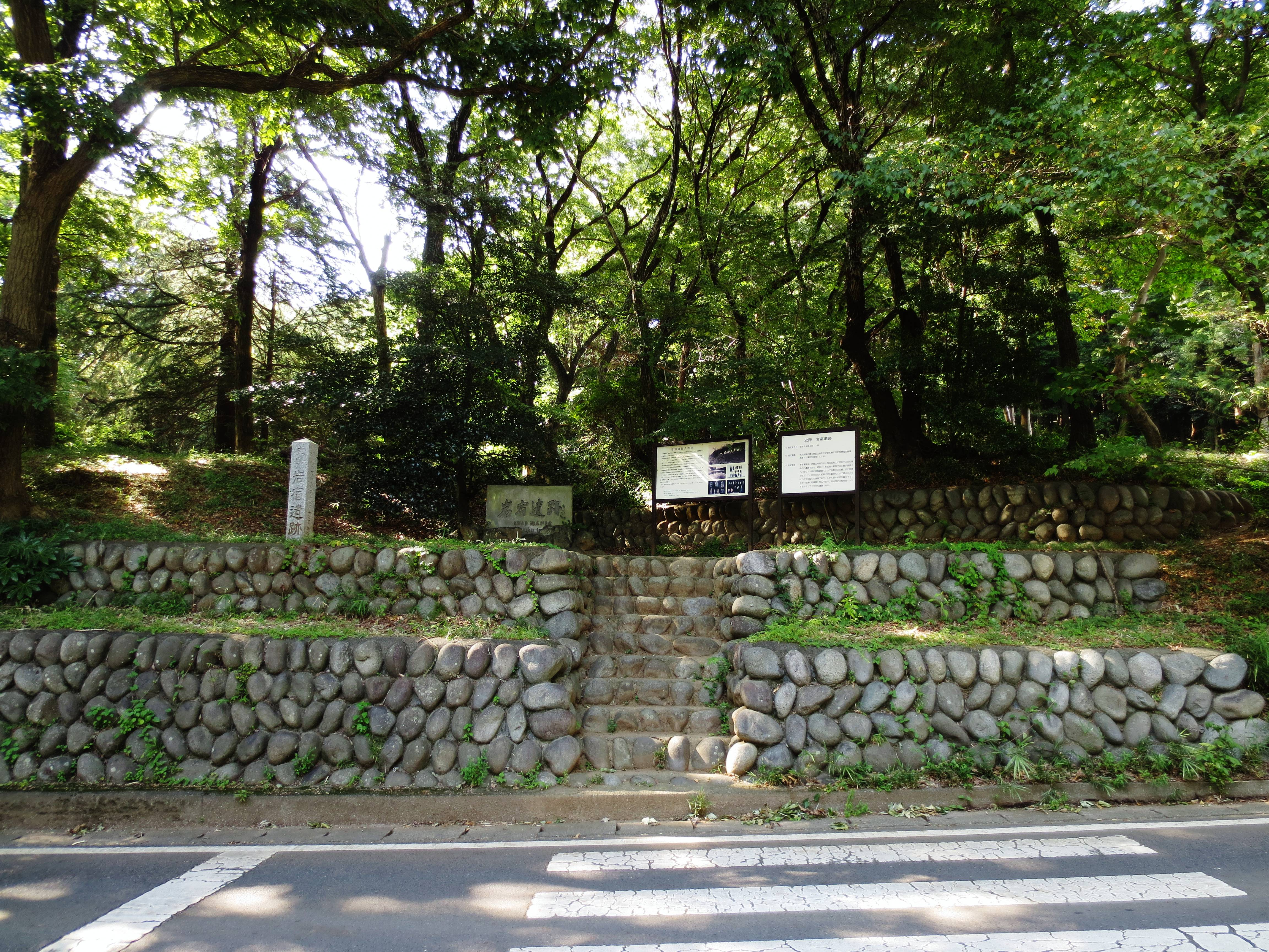 Iwajuku.